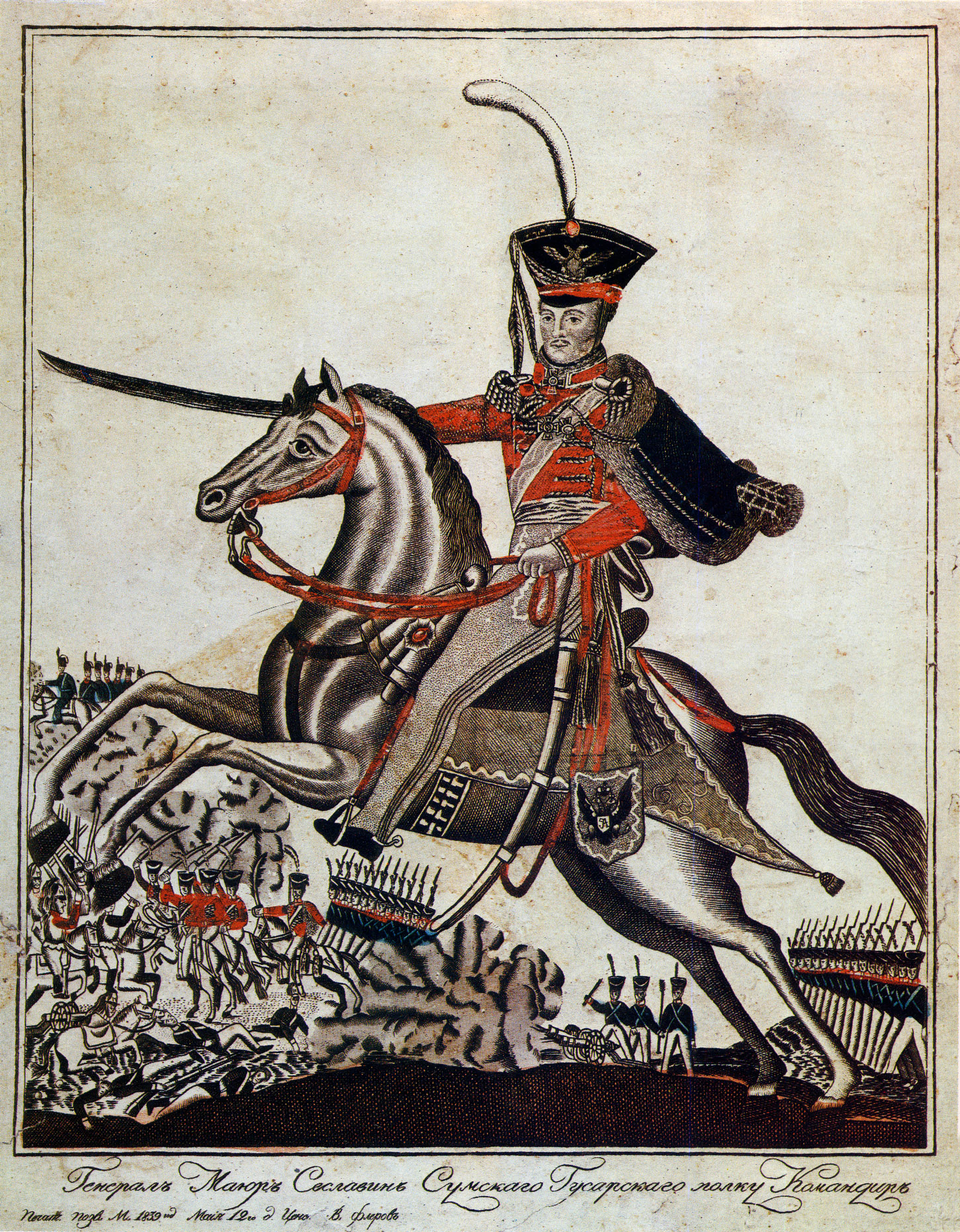 General Mayor Alexander Seslavin 1839